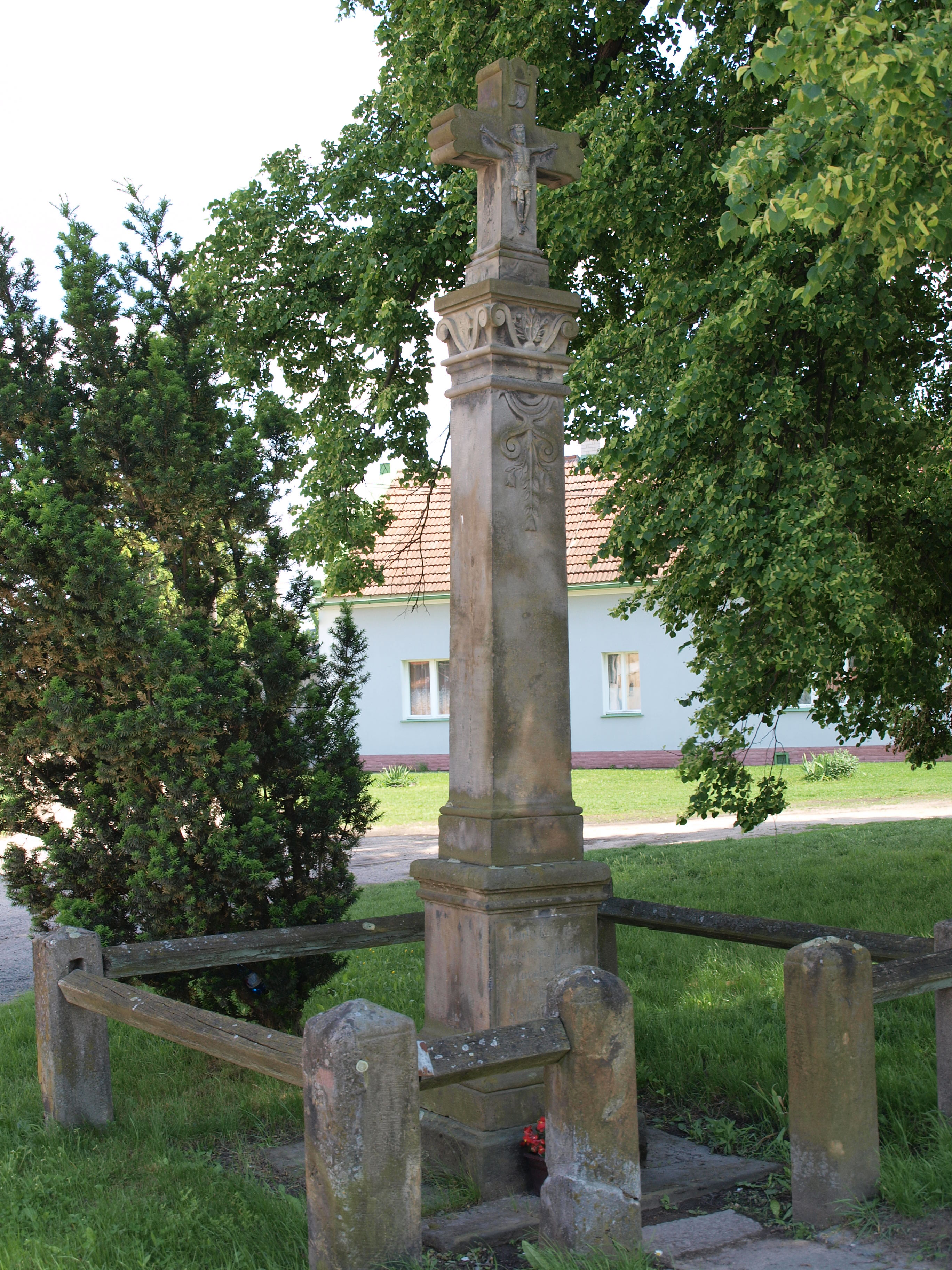 Statue on square, Stará Lysá, Central Bohemian Region